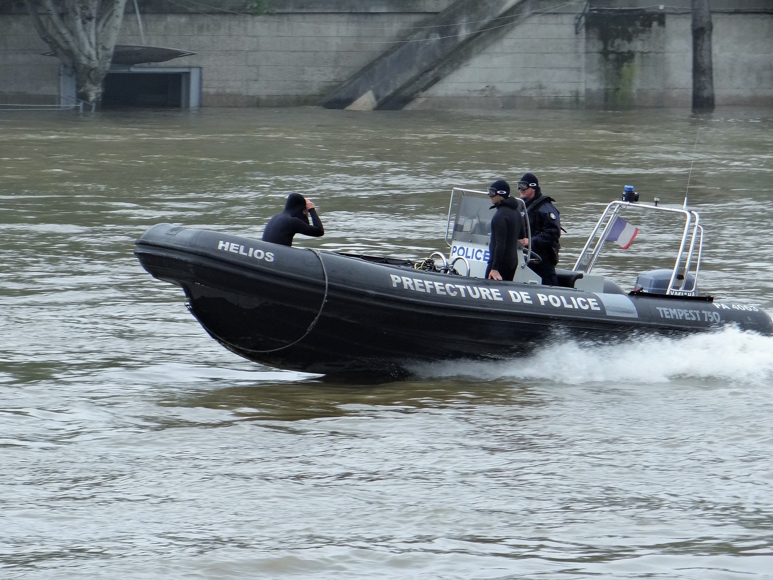 River Brigade of the Paris Police Prefecture during the flood of the Seine in June 2016